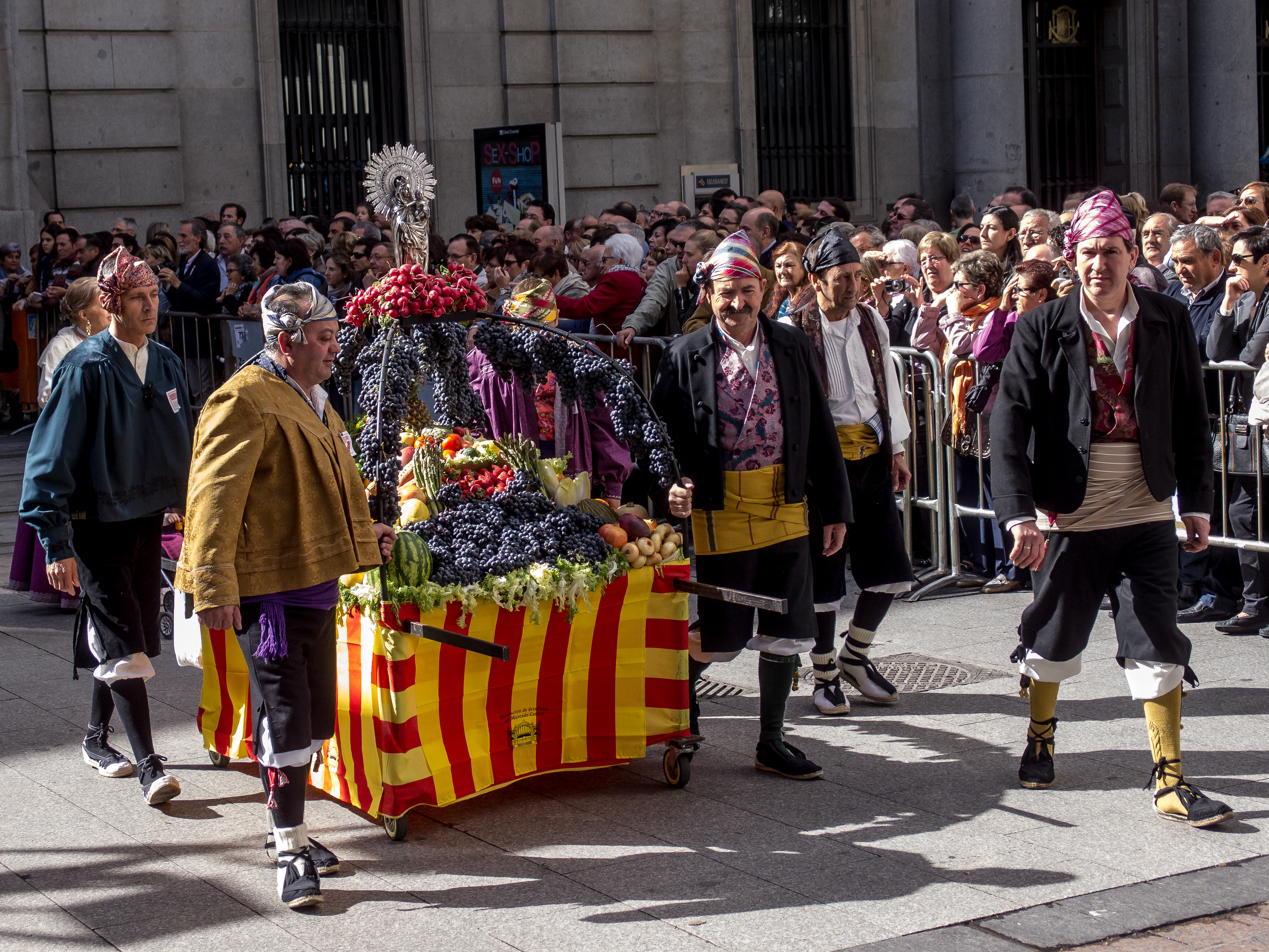 OLYMPUS DIGITAL CAMERA This is a photography of a Folklore festival in Spain (Wikidata id Q3092925).